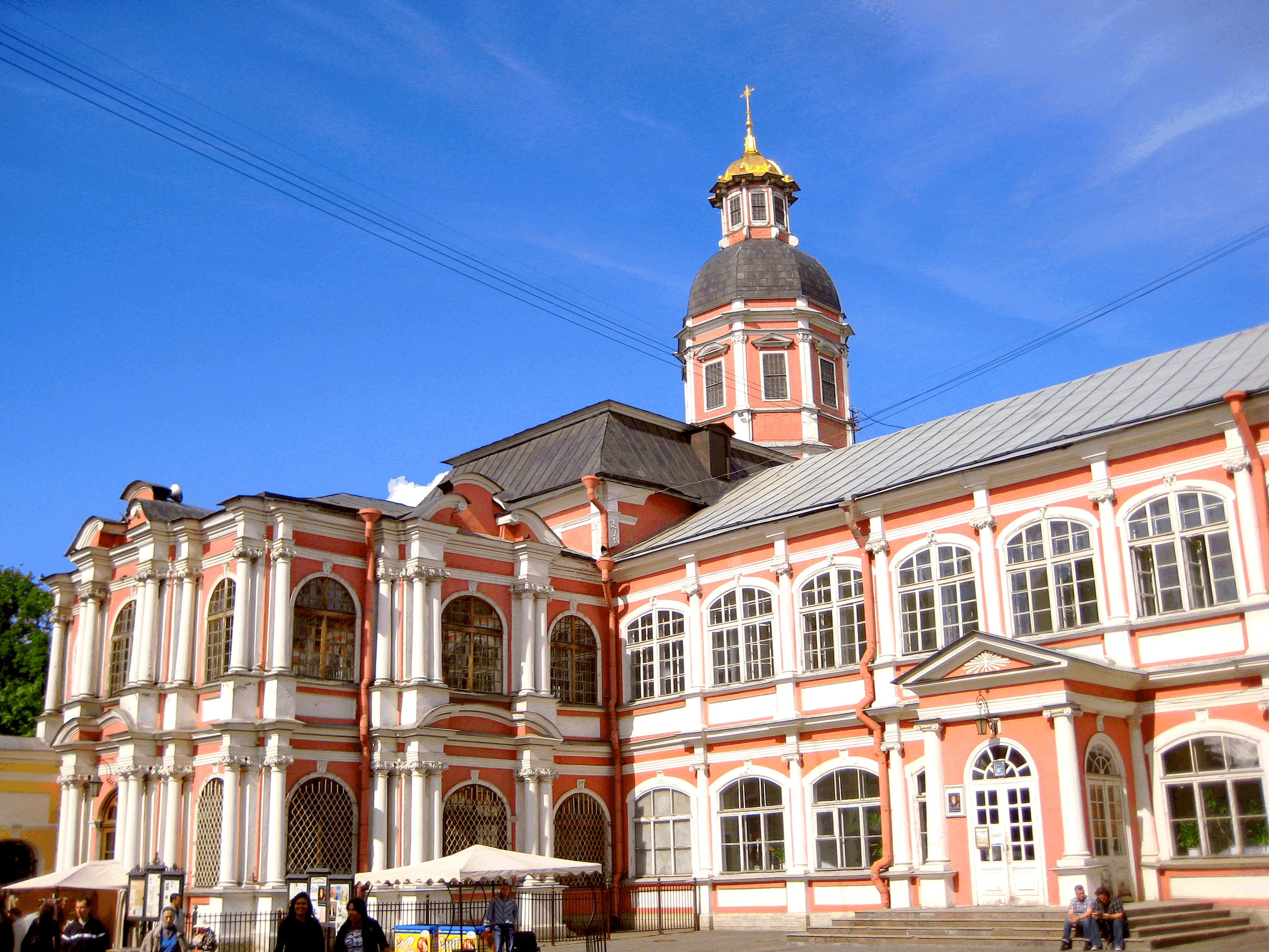 The Holy Dukhov Corps (arch. Trezini D., Schwertfeger T.), 1717-1722, 1820: Alexander Nevsky Lavra, Embankment Monasteries, 1-B. Central district, St. Petersburg.